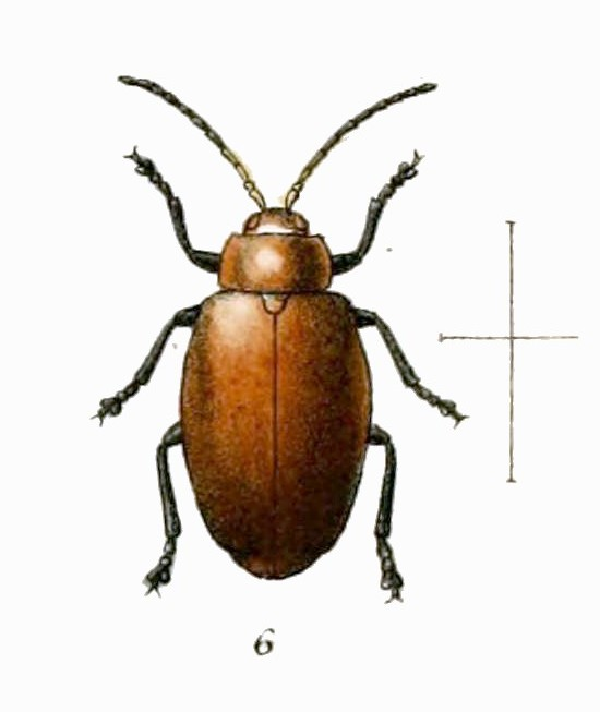 "New Species of Galerucinæ" (dorsal view)